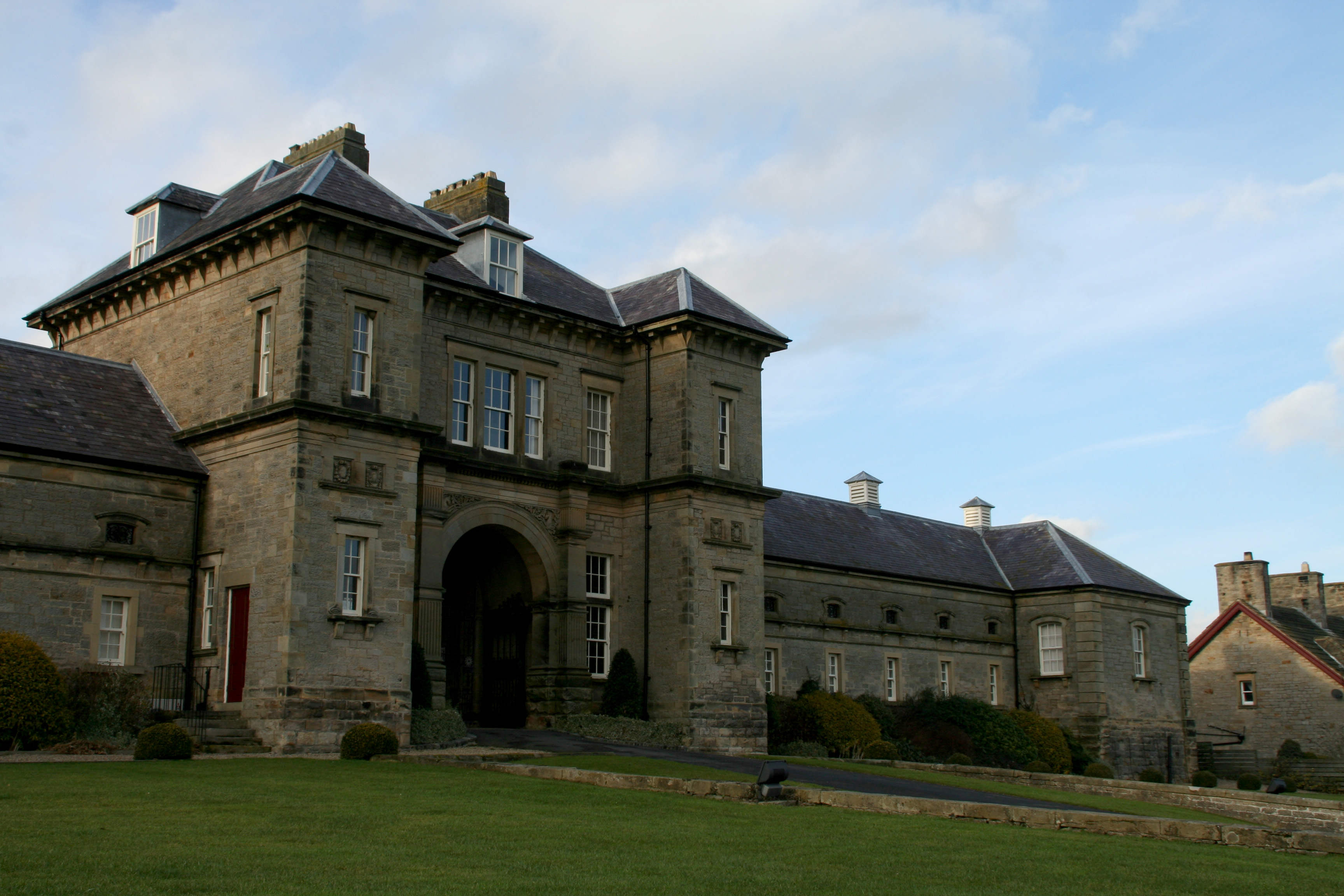 Aske Hall, - what used to be the stables block but is now a commercial unit housing small businesses.